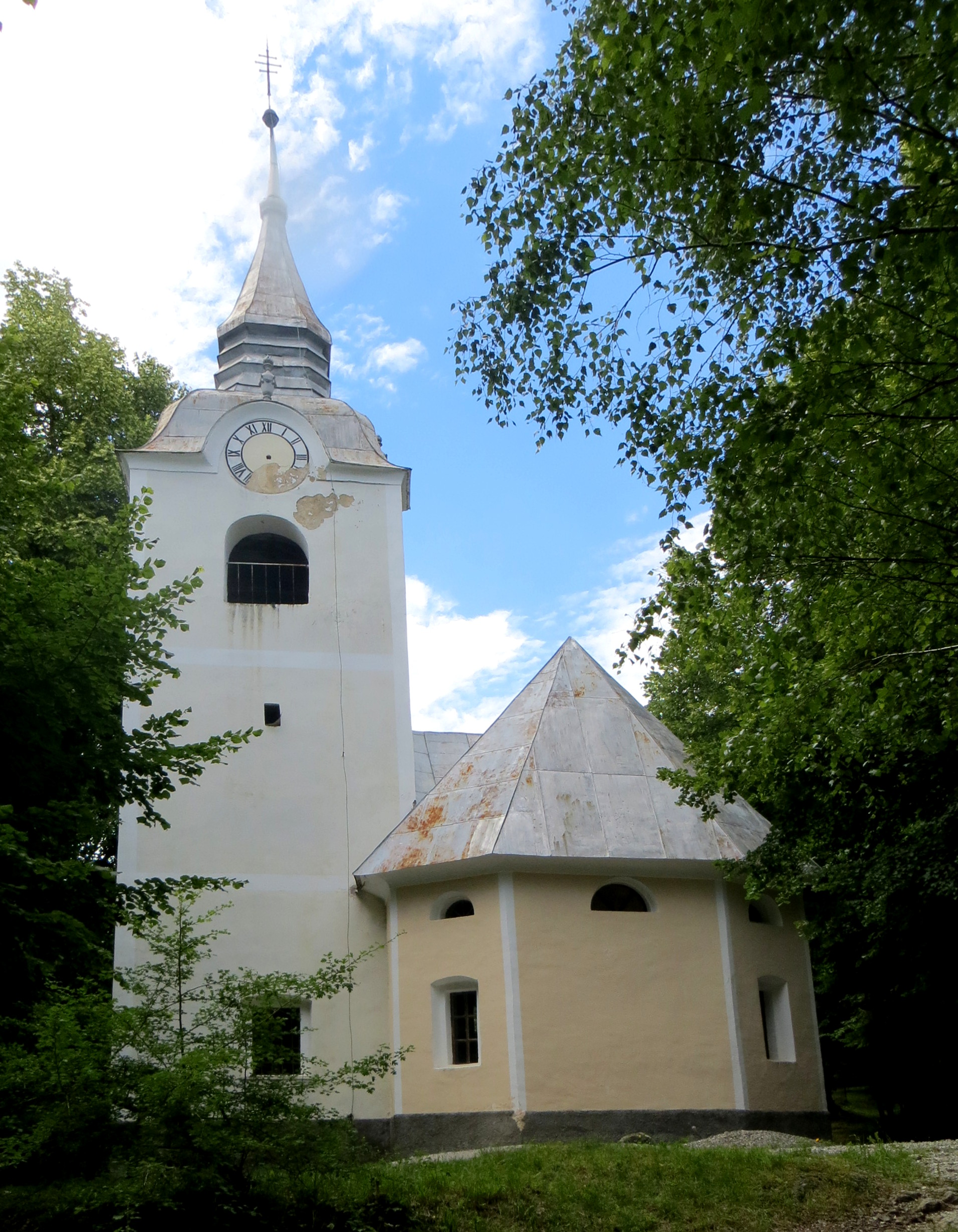 Prophet Elijah Church in Planina, Municipality of Semič, Slovenia